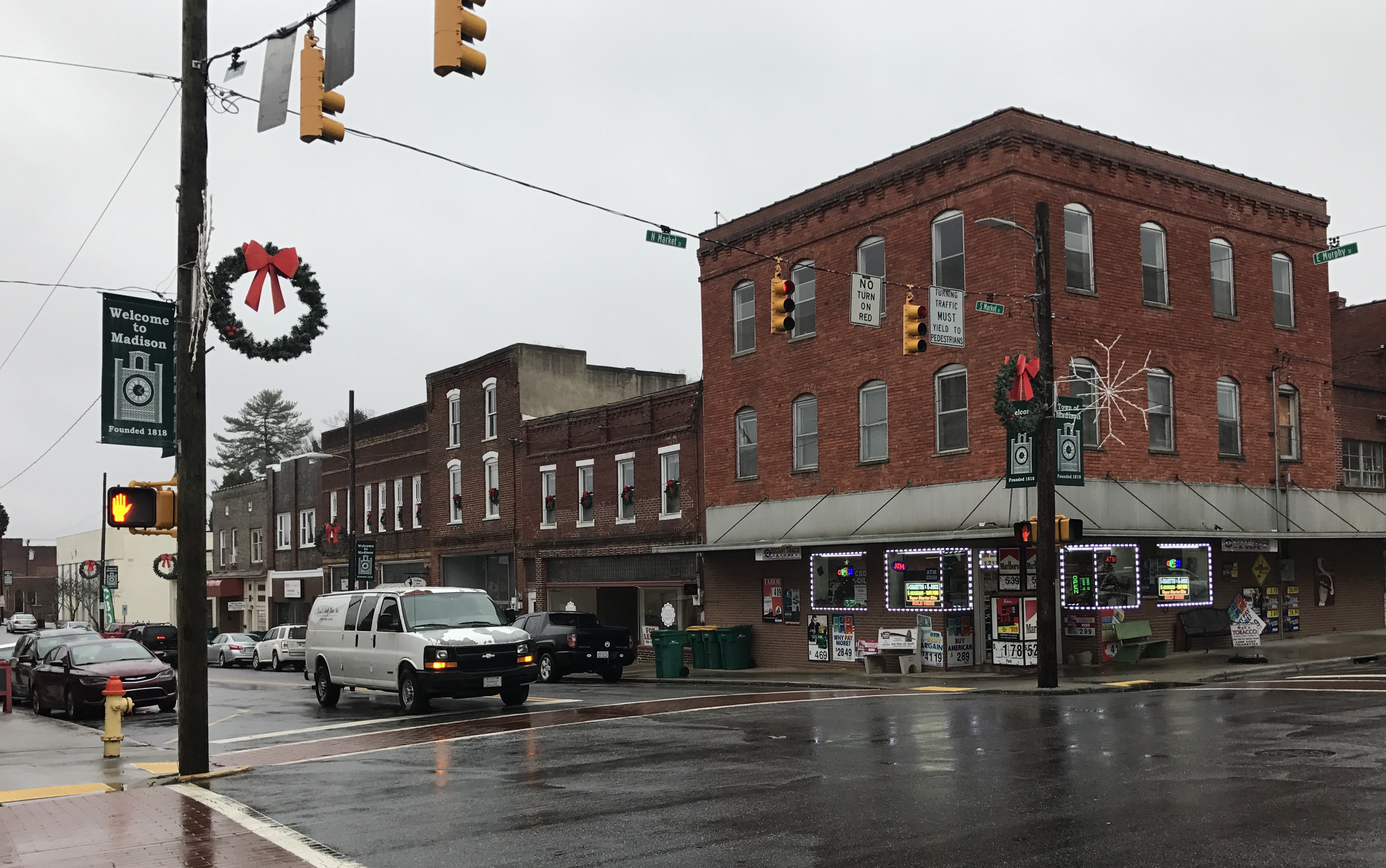 Main cross street in Madison downtown